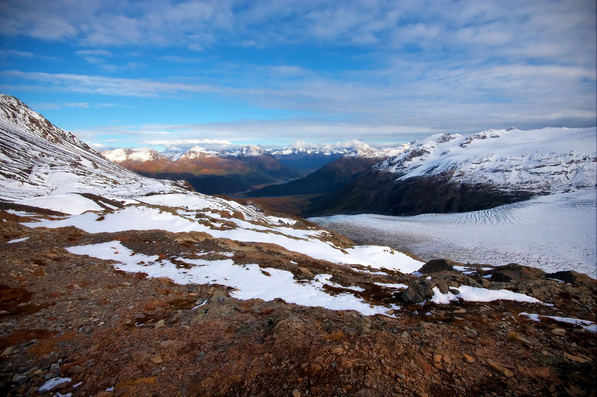 The muscle cramps, the lost scarf, the lost gloves, and the lost hat - all worth it, just for this.